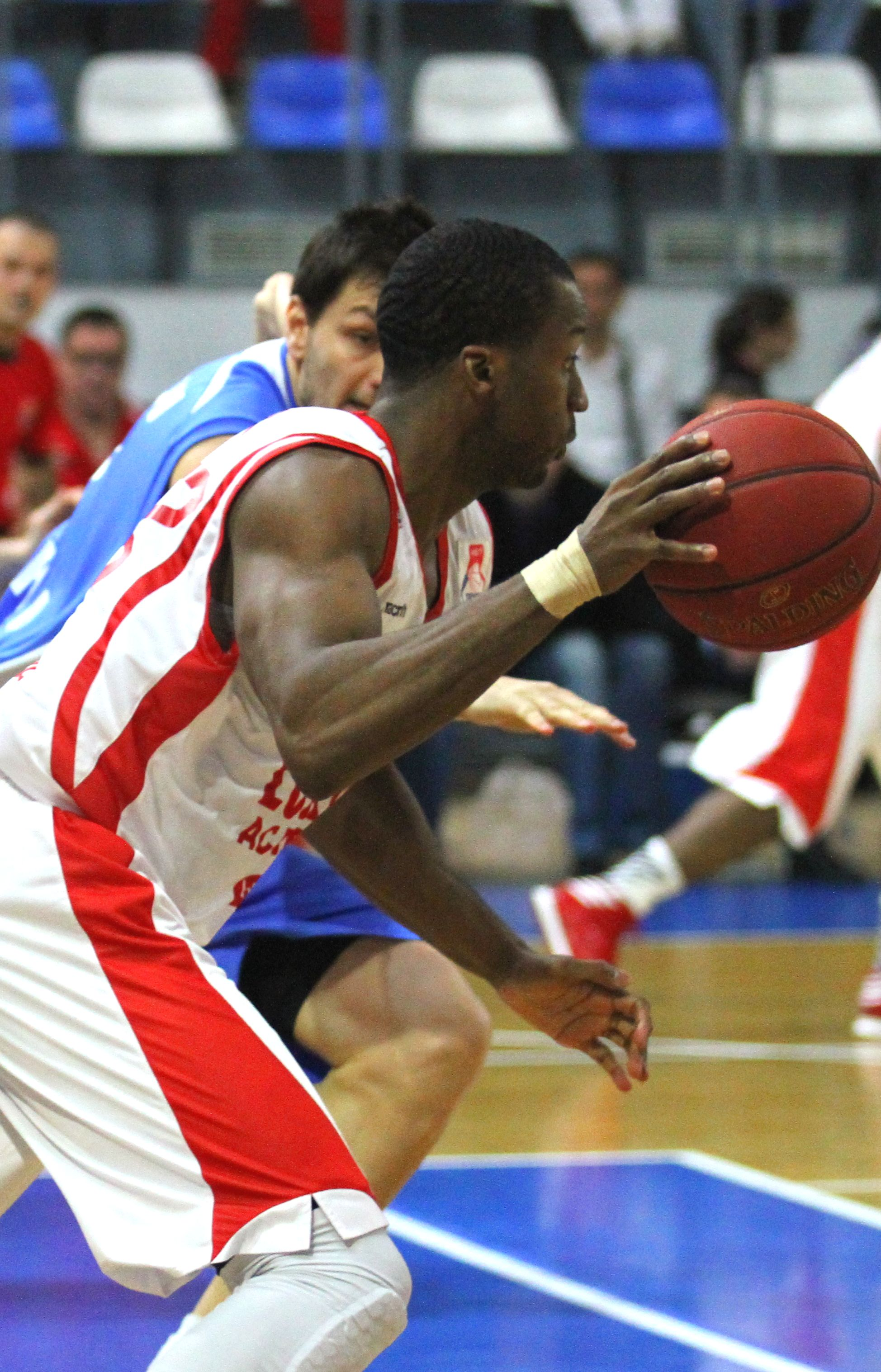 Alando Forest Tucker (born February 11, 1984) is an American professional basketball player who last played for Hapoel Eilat of the Israeli Premier League. Tucker played five seasons at the University of Wisconsin–Madison and wore the number 42.